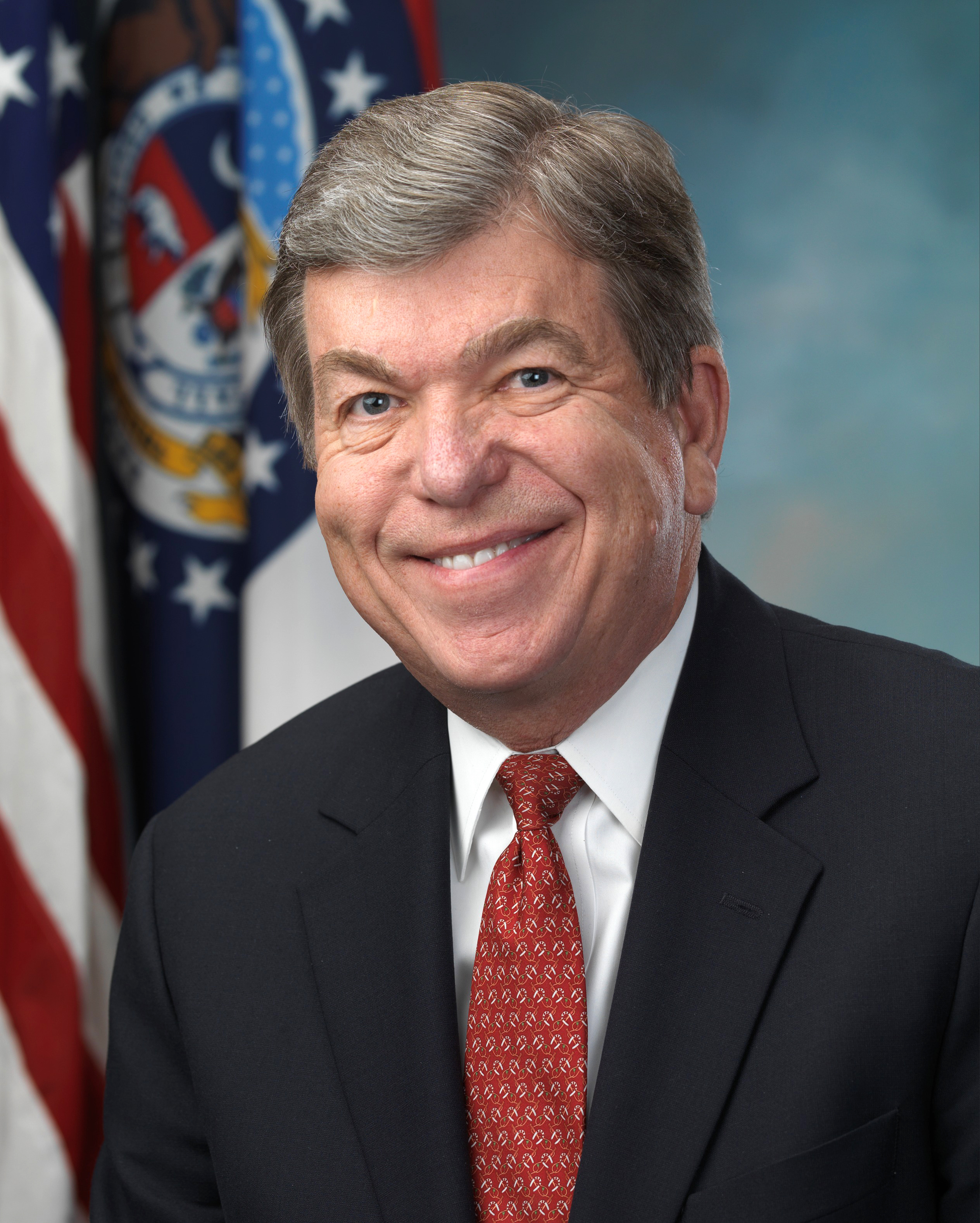 Official portrait of US Senator Roy Blunt (R-MO)